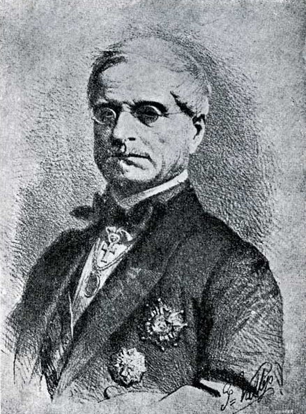 Casiano de Prado y Vallo (1797-1866), en una ilustración antigua.